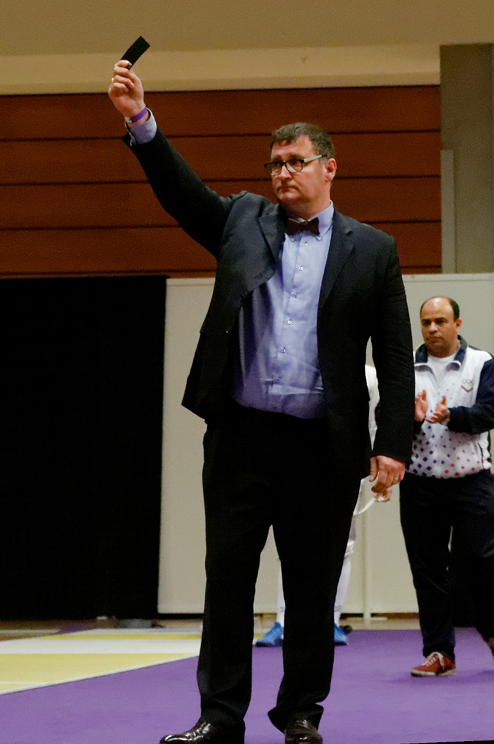 The referee issues a black card to Park Kyoung-doo of Korea for throwing his weapon and refusing to salute his opponent. Team T8 of the Challenge Réseau Ferré de France–Trophée Monal 2013, a men's épée FIE World Cup competition.